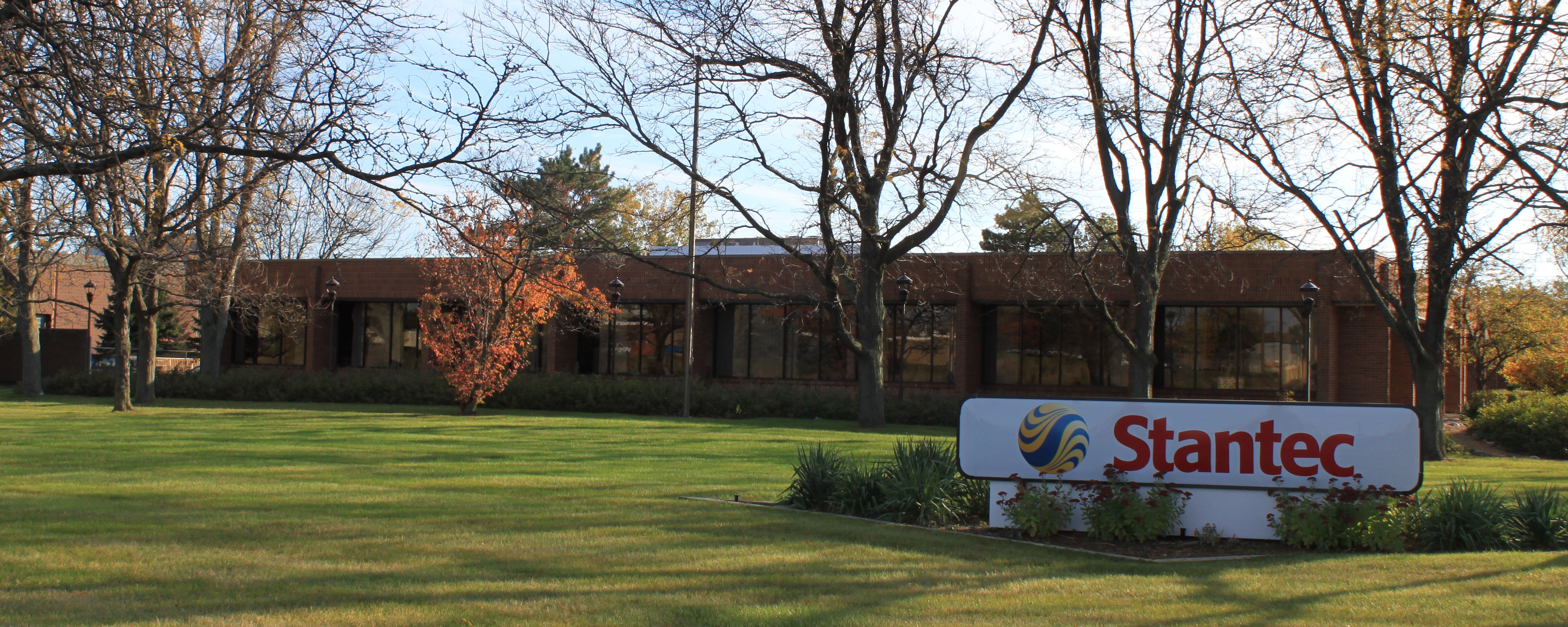 Stantec Consulting Michigan building, 3959 Research Park Drive, Ann Arbor, Michigan